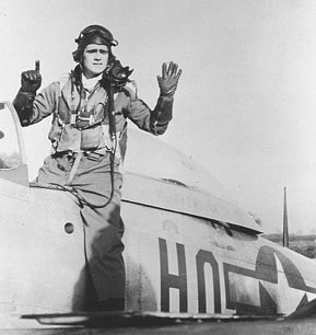 Captain William T. Whisner of 352nd FG, poses after scoring 4 kills and two probables on November 21, 1944.